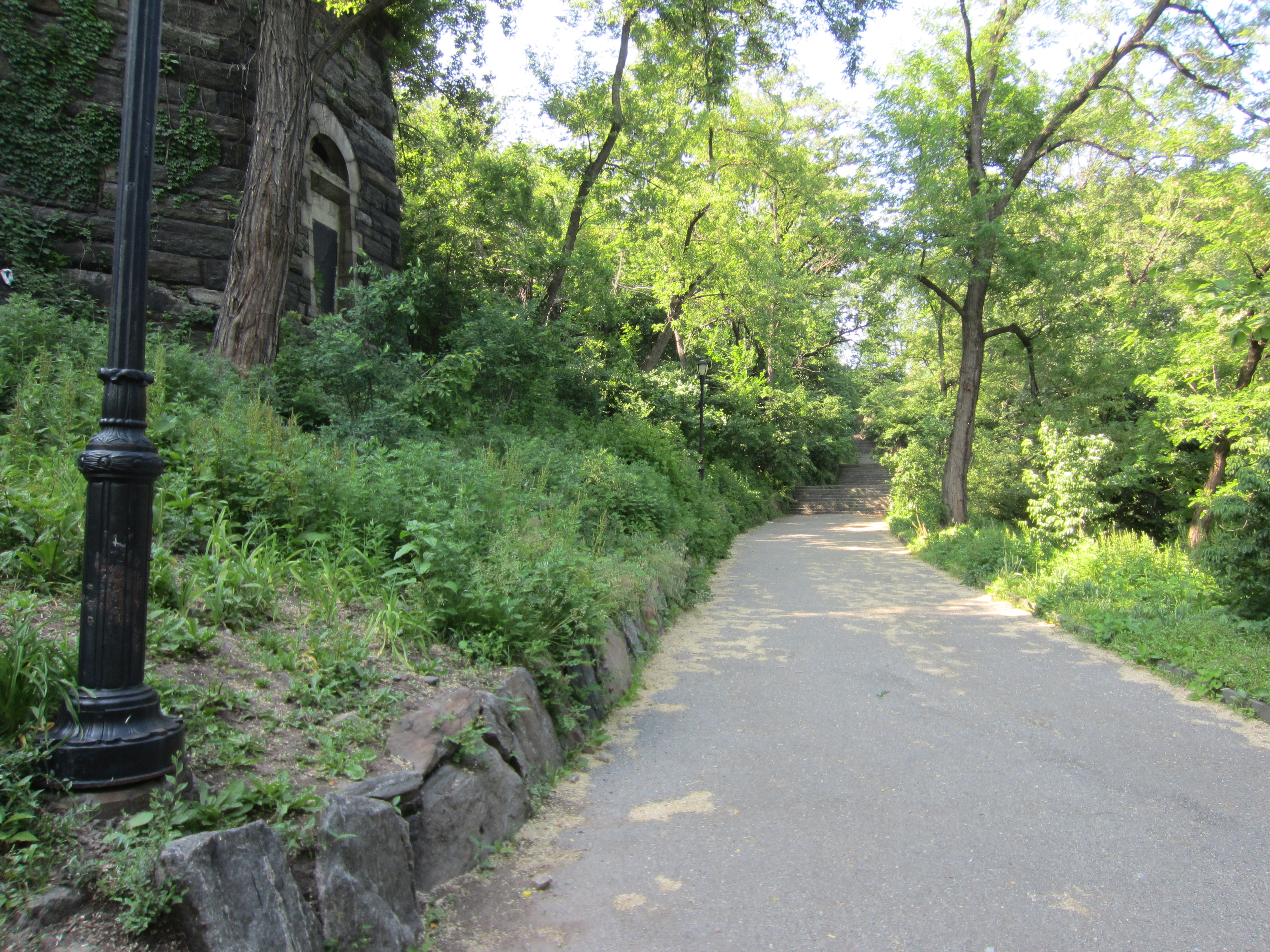 Morningside Park, NYC (2014)